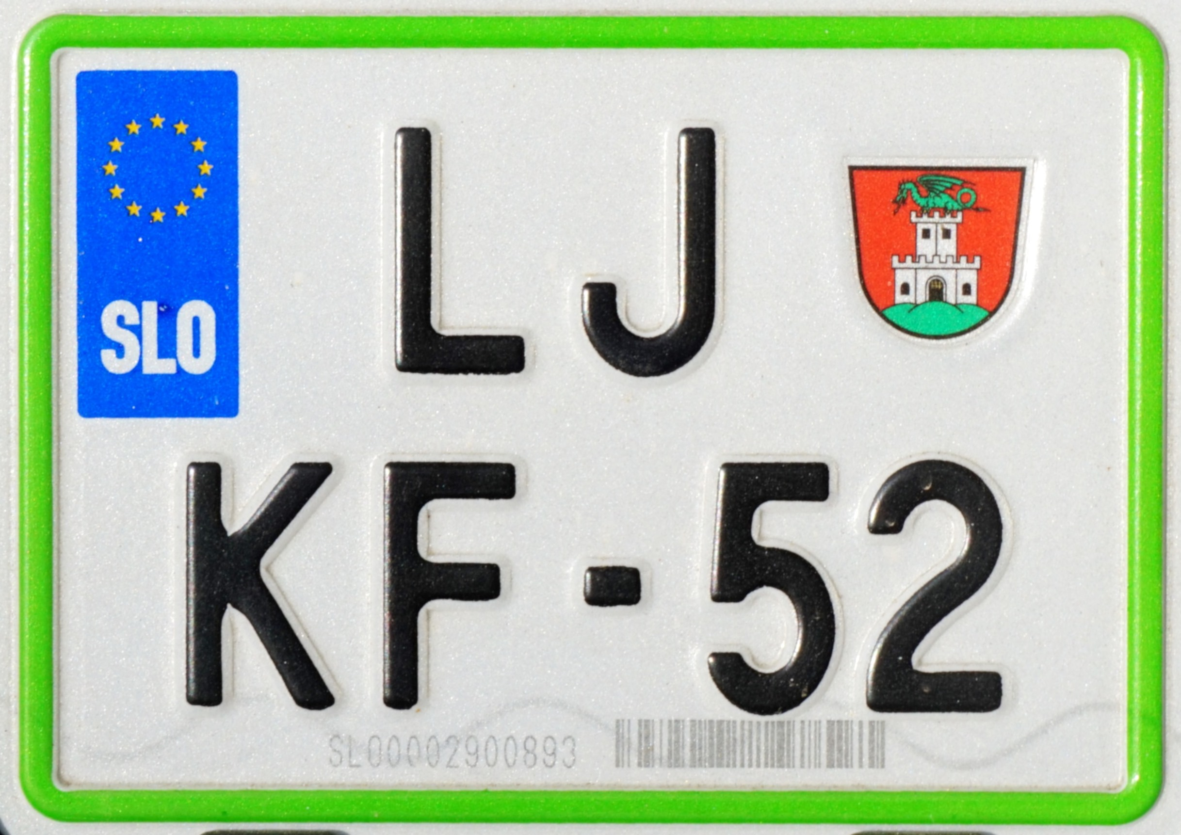 A 150 x 110 mm Slovenian number plate belonging to a motorcycle. Ljubljana district abbreviation and coat of arms.